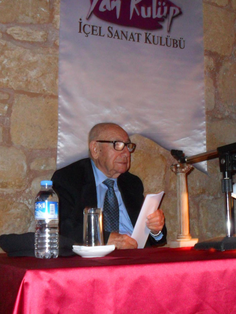 Aydın Boysan in Mersin on 13 feb. 2014